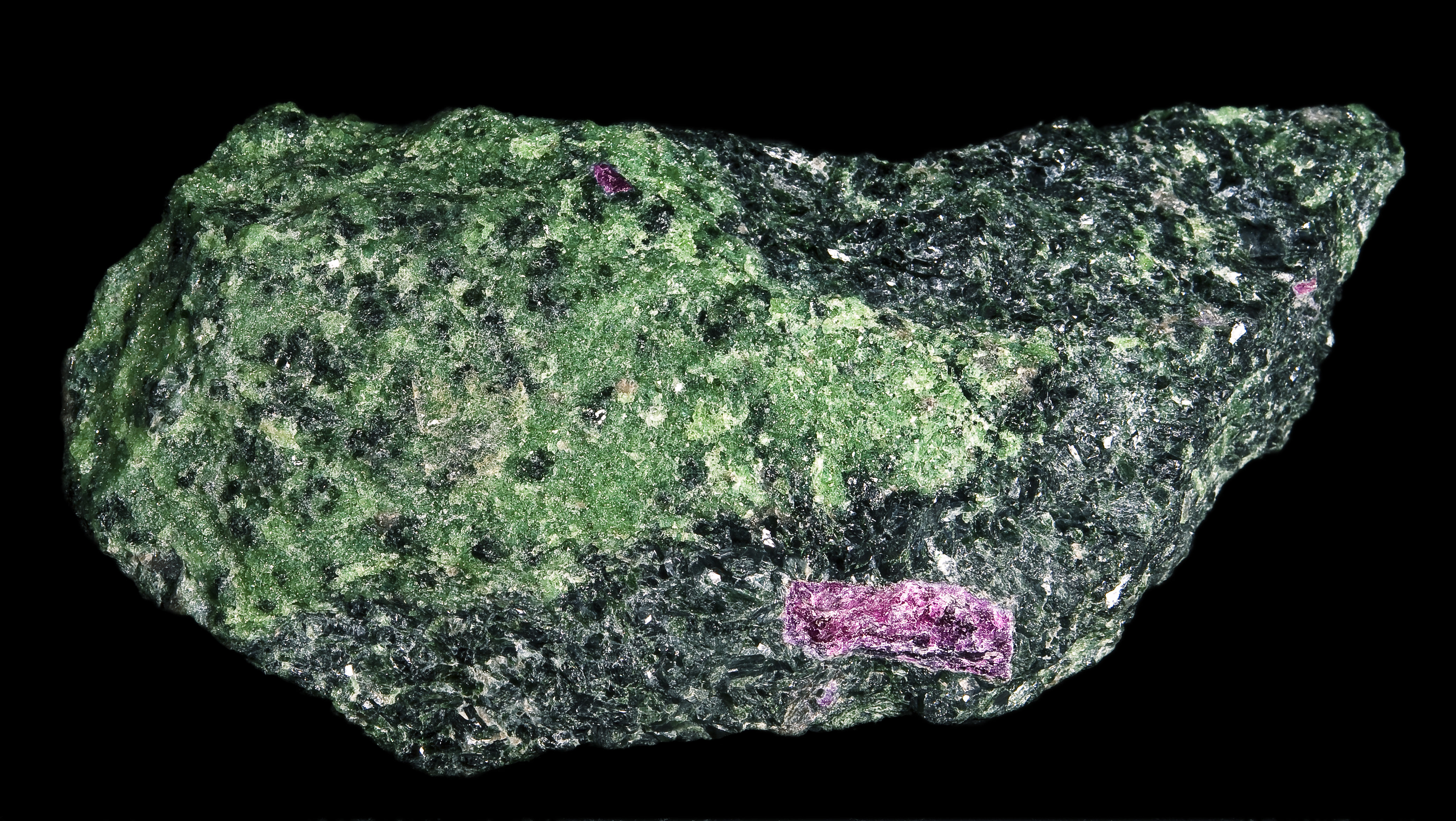 Anyolite (chrome-zoisite,tschermakite,rubis) Locality: Mundarara Mine, Longido, Mt Kilimanjaro, Kilimanjaro Region, Tanzania (12 cm).